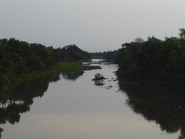 The name of this river is Voyrab, a very important river in the history of Bangladesh. The ancient business of Bangla were circulated around this river. This river was also important in the Moghal Period, at that time The land lord of the Jessore was Protapaditto. But after that the river is loosing its charm gradually and takes the recent view. There are many myth about this river. The main part of this river in Jessore. The picture was shot early in the morning from Jessore.